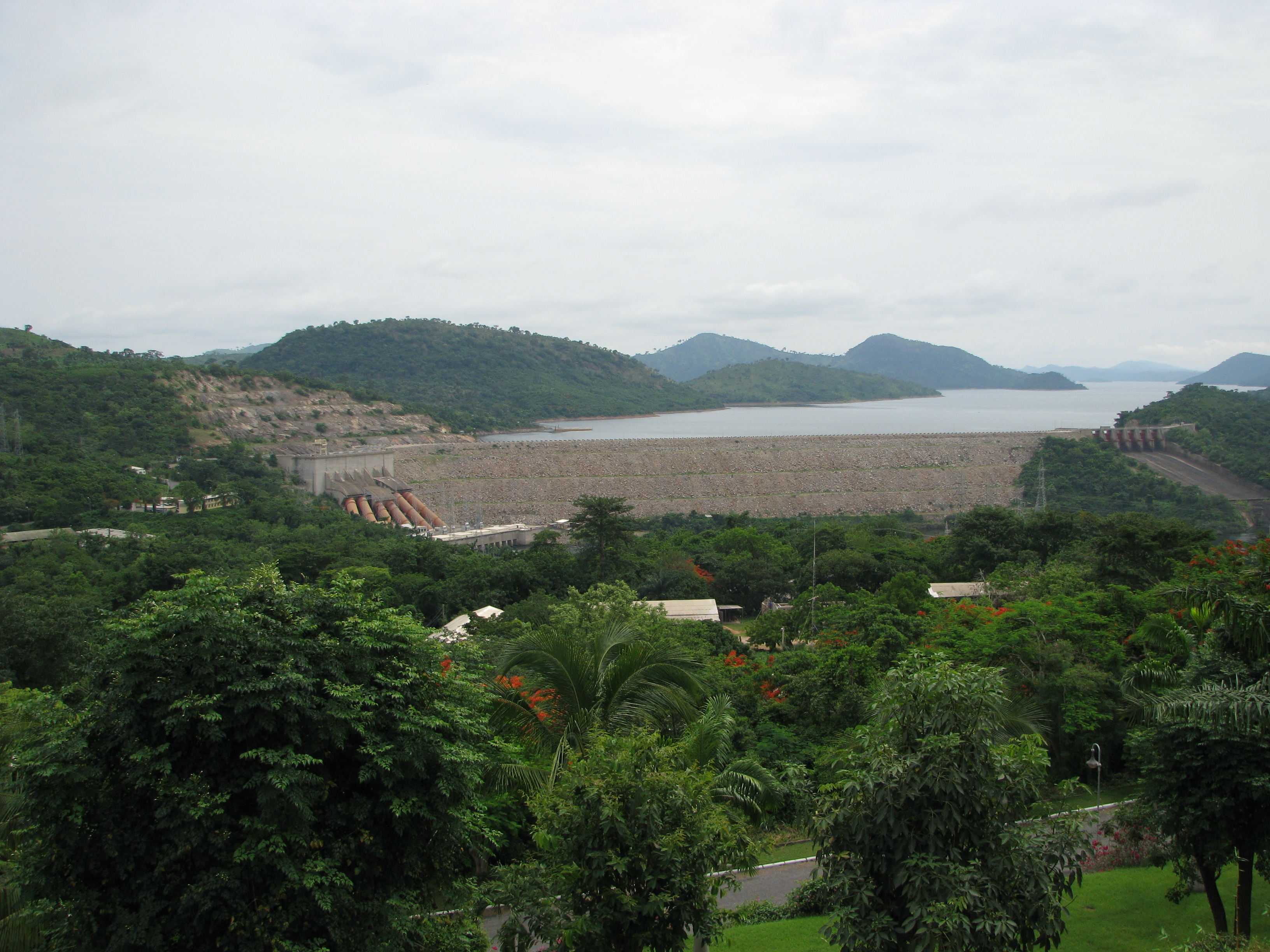 Akosombo dam Ghana. The picture was taken from the Volta hotel.